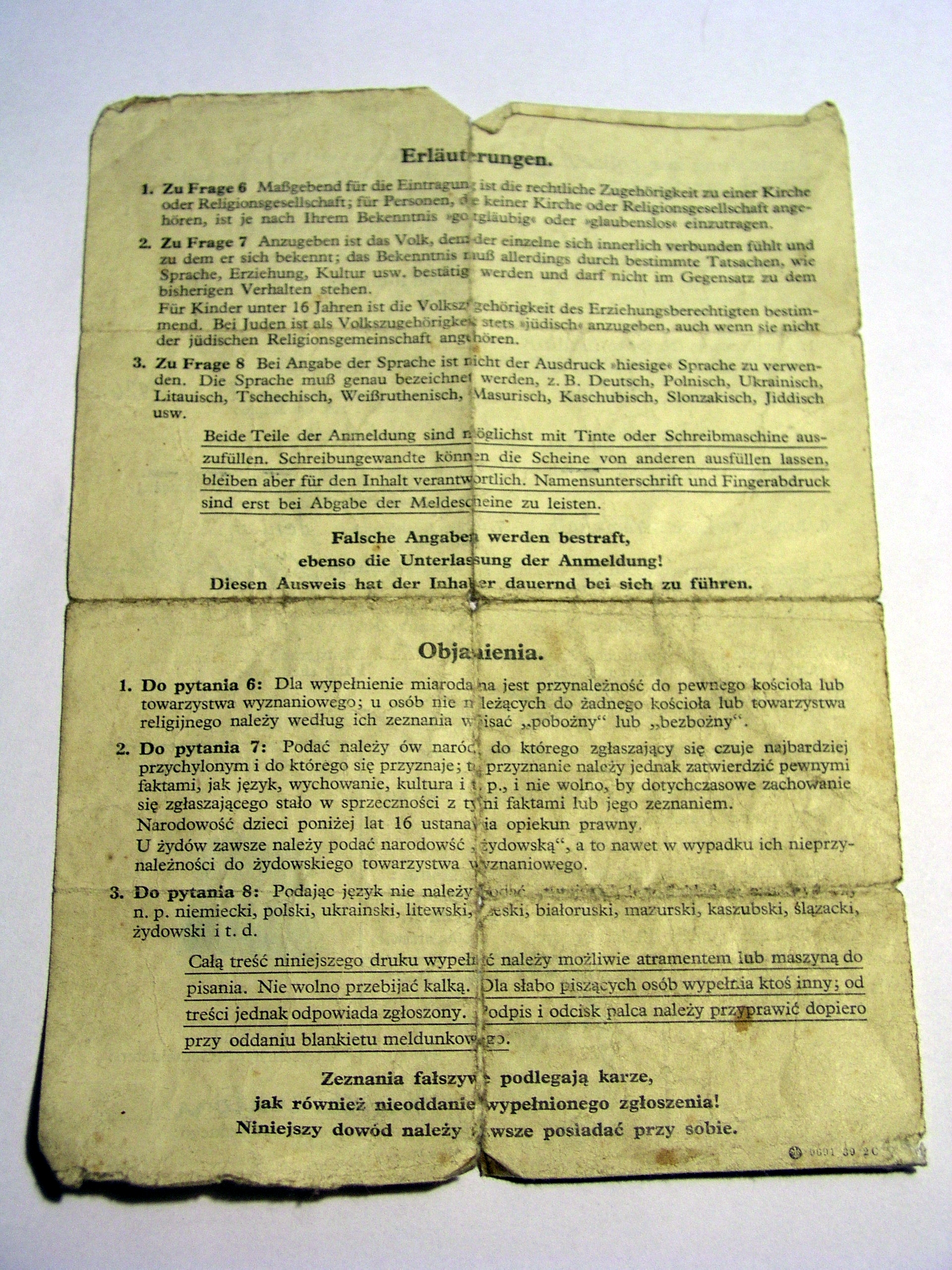 German identity card, second page, provided in occupied Poland, around 1940